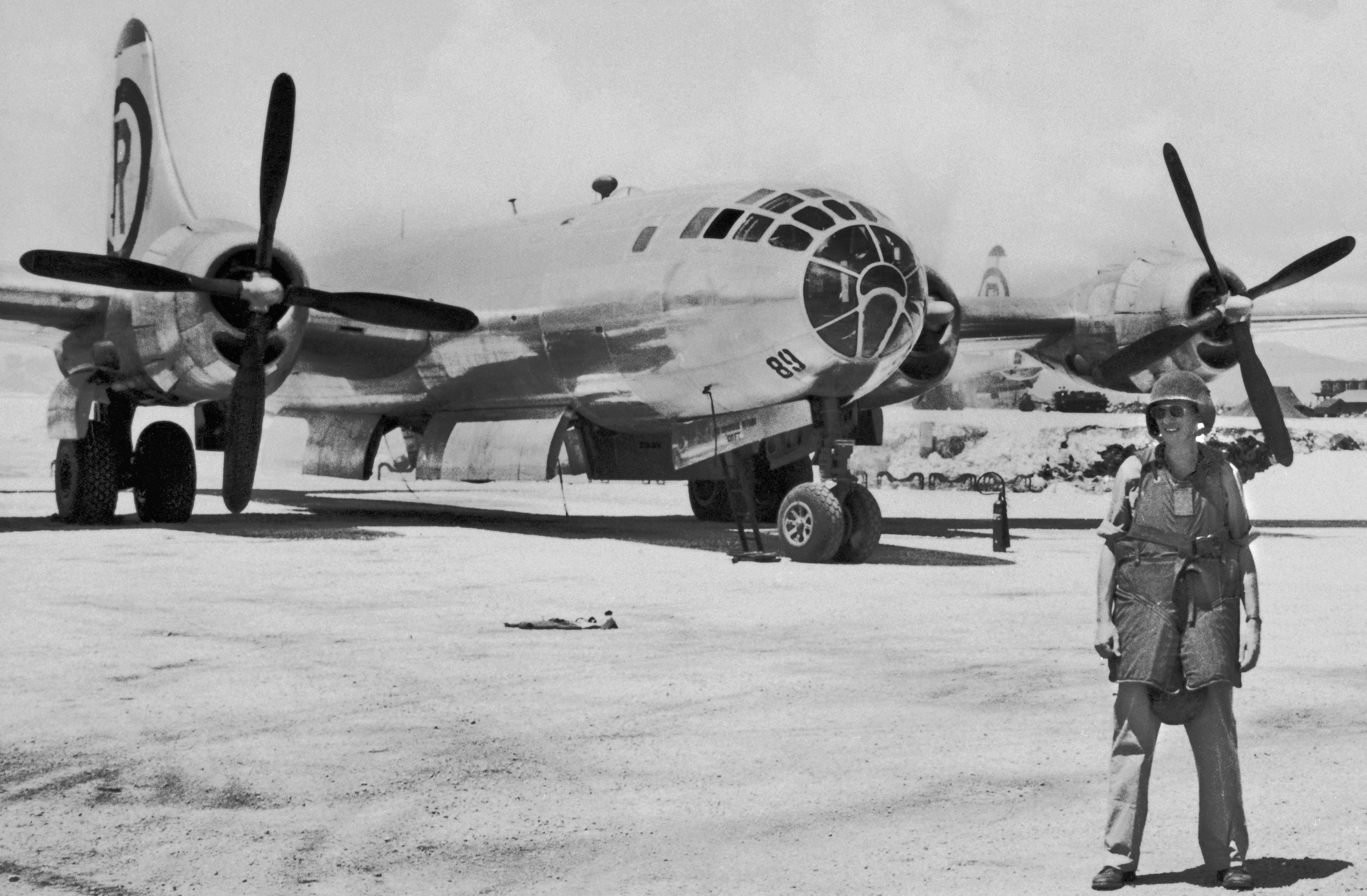 Luis W. Alvarez in front of B-29 "The Great Artiste"